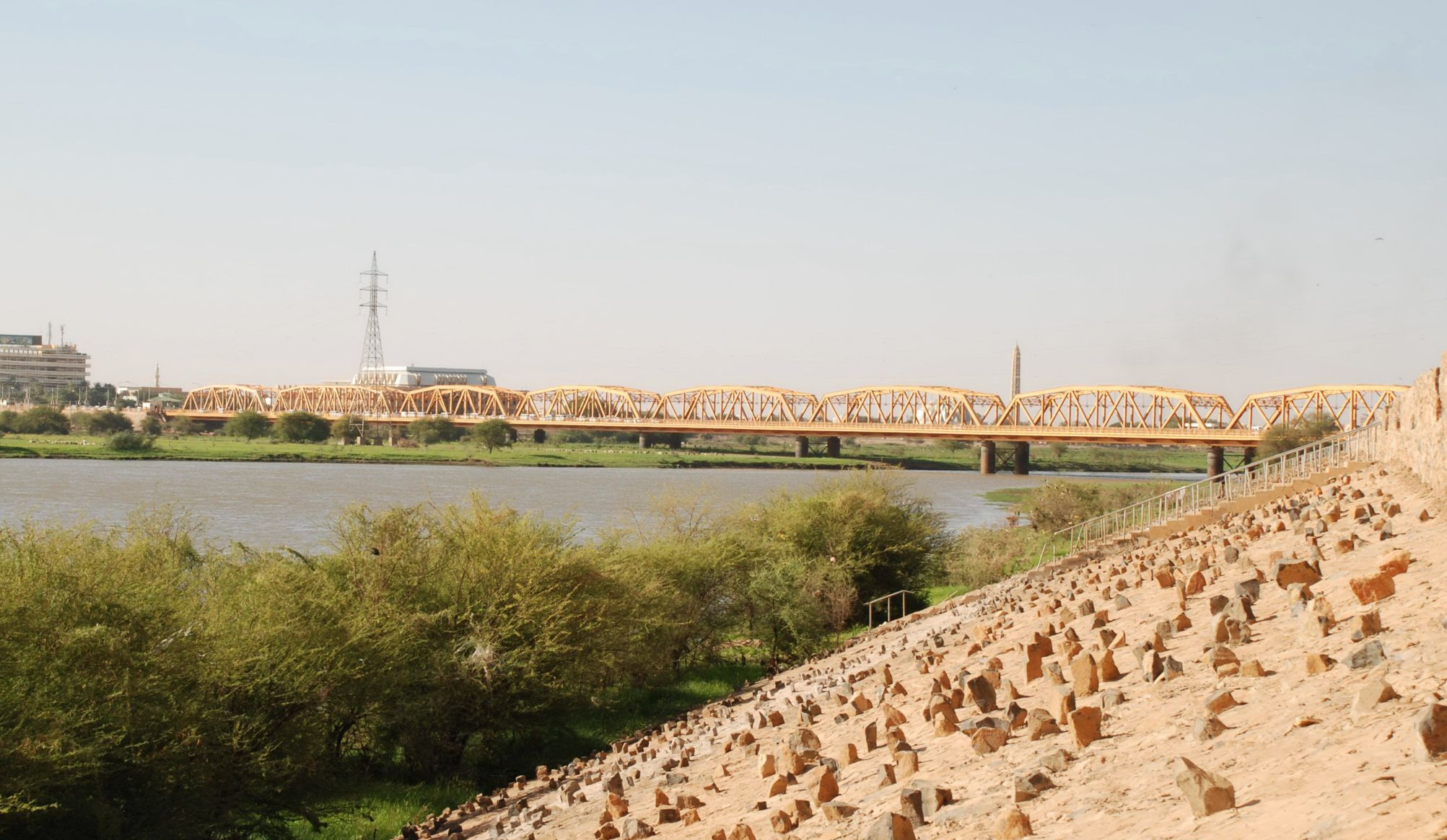 Old bridge across Nile between Khartoum and Omdurman, Sudan.